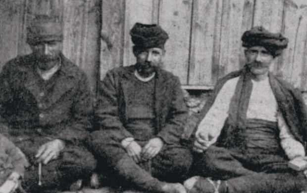 Gallipoli Serbs in Yugoslavia 1922